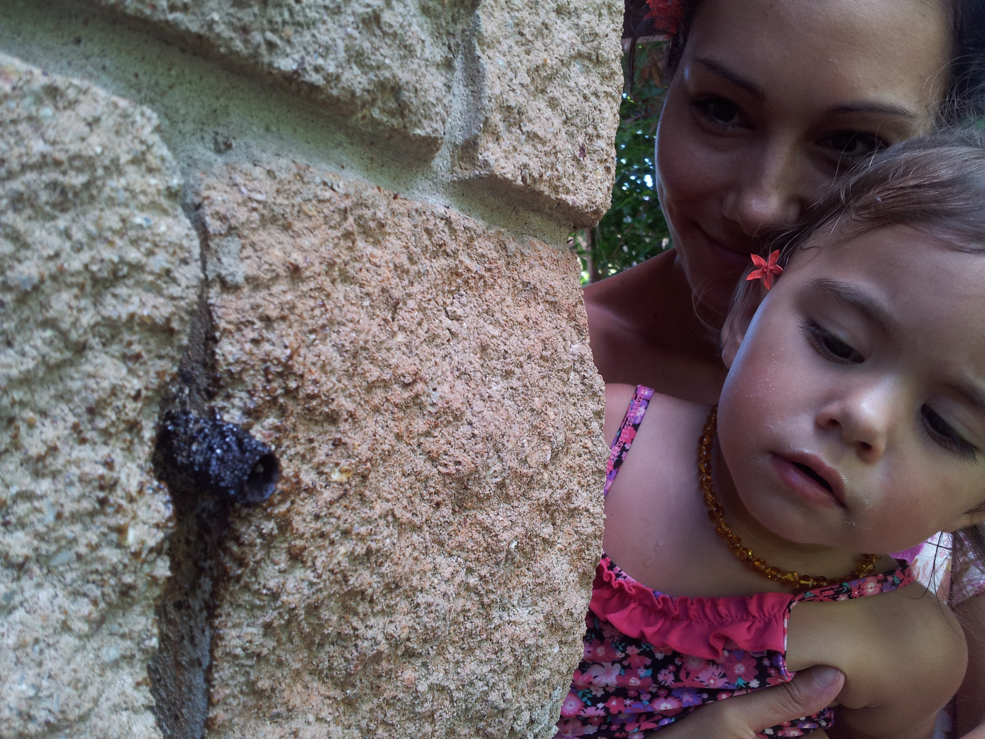 A spout used as entry and exit to a hive of native bees, or Stingless Bees (Trigona), in the brick work of a house in Darwin, Australia